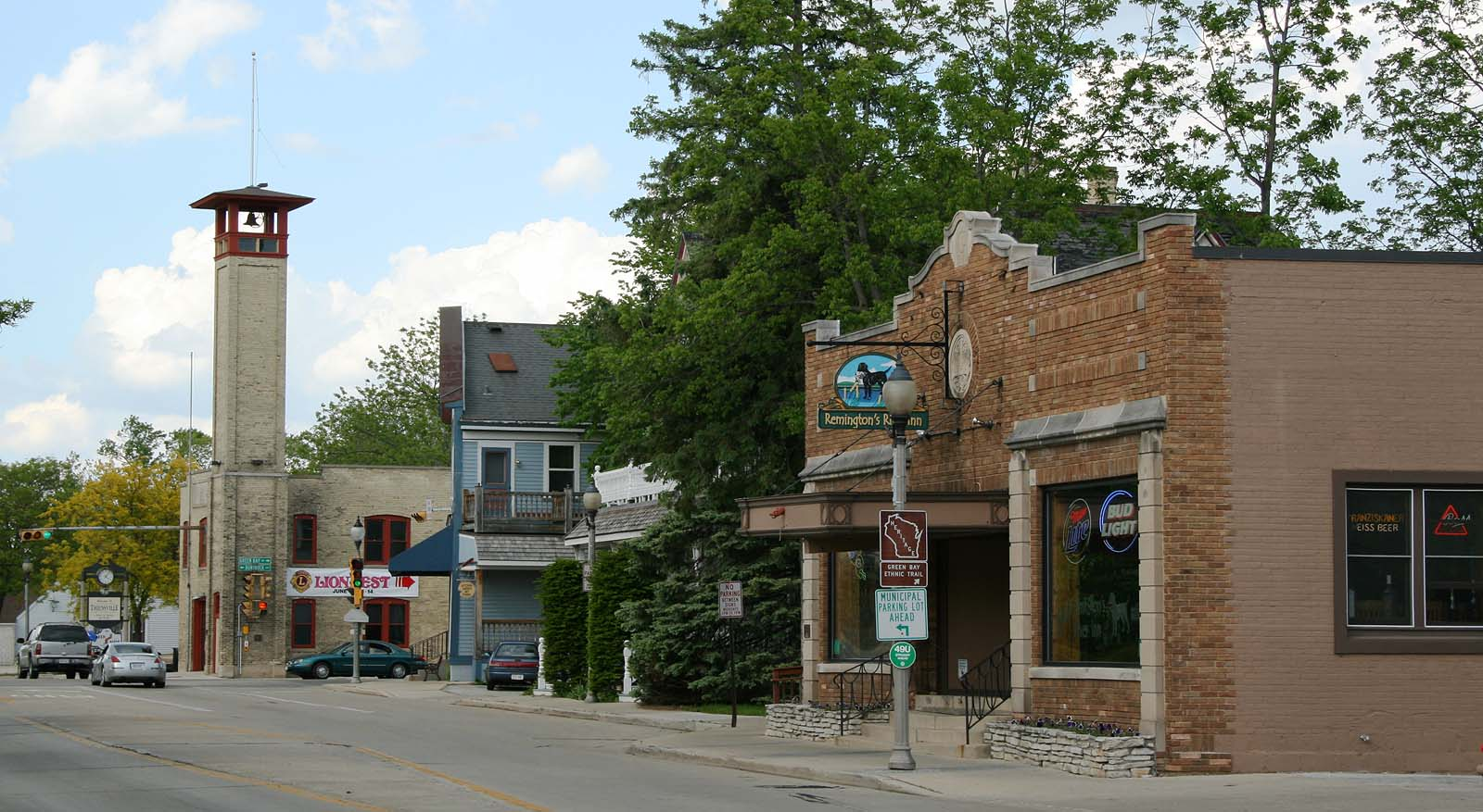 The Main Street Historic District, National Registered Historic Place, in Thiensville, Wisconsin.